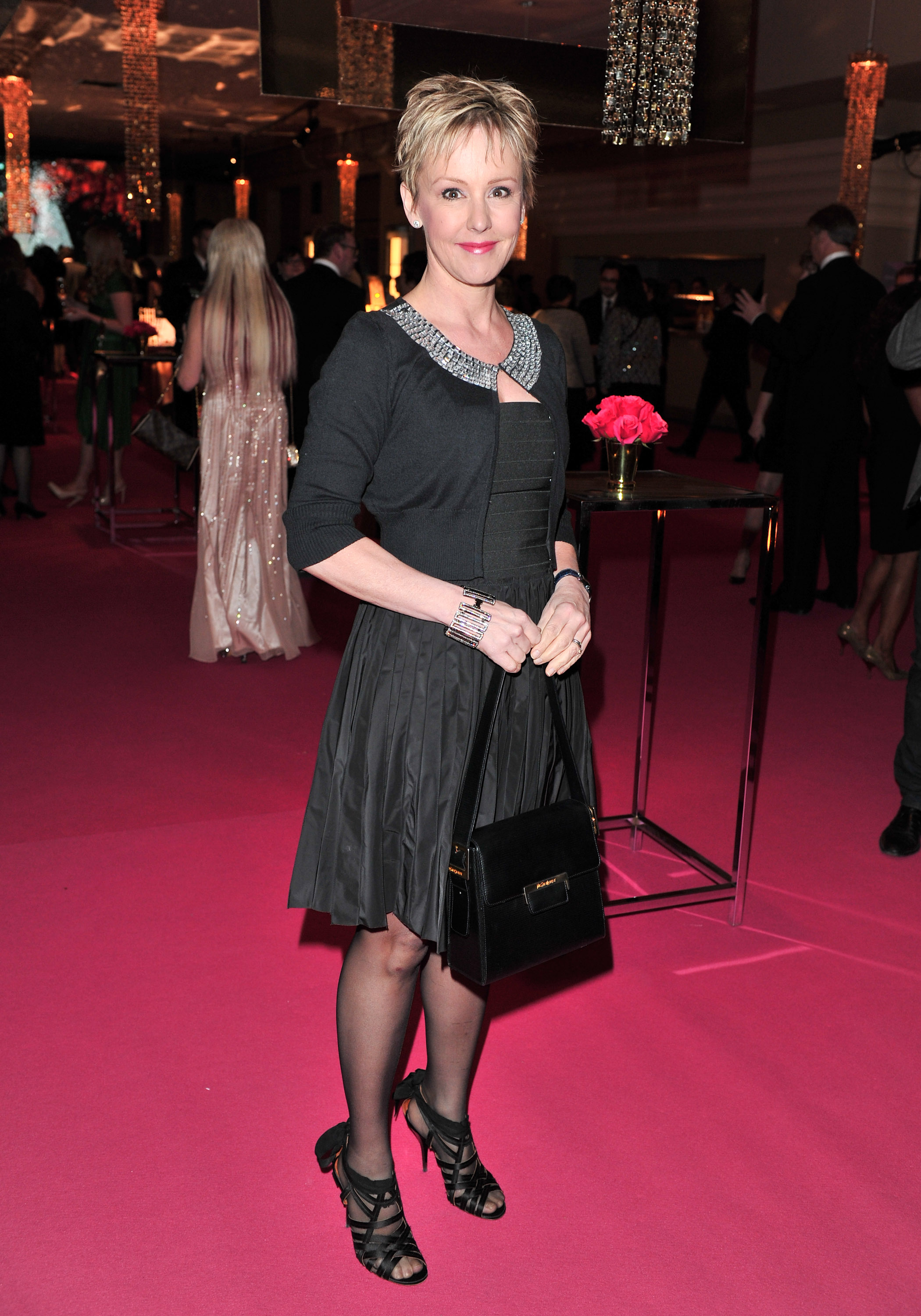 CBC's Wendy Mesley at the 18th CFC Annual Gala & Auction.